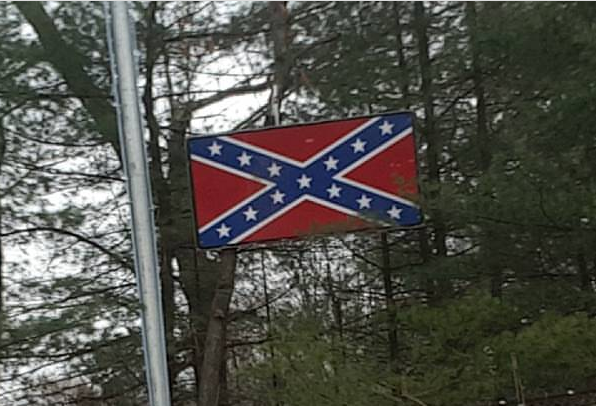 The Confederate flag at the Walpole High School football field in March of 2016. The flag was taken down later that year after the owner of the property which the flag was placed on died. A pole, visible in the picture, is one of two which was used by the town to obscure the view of the flag.